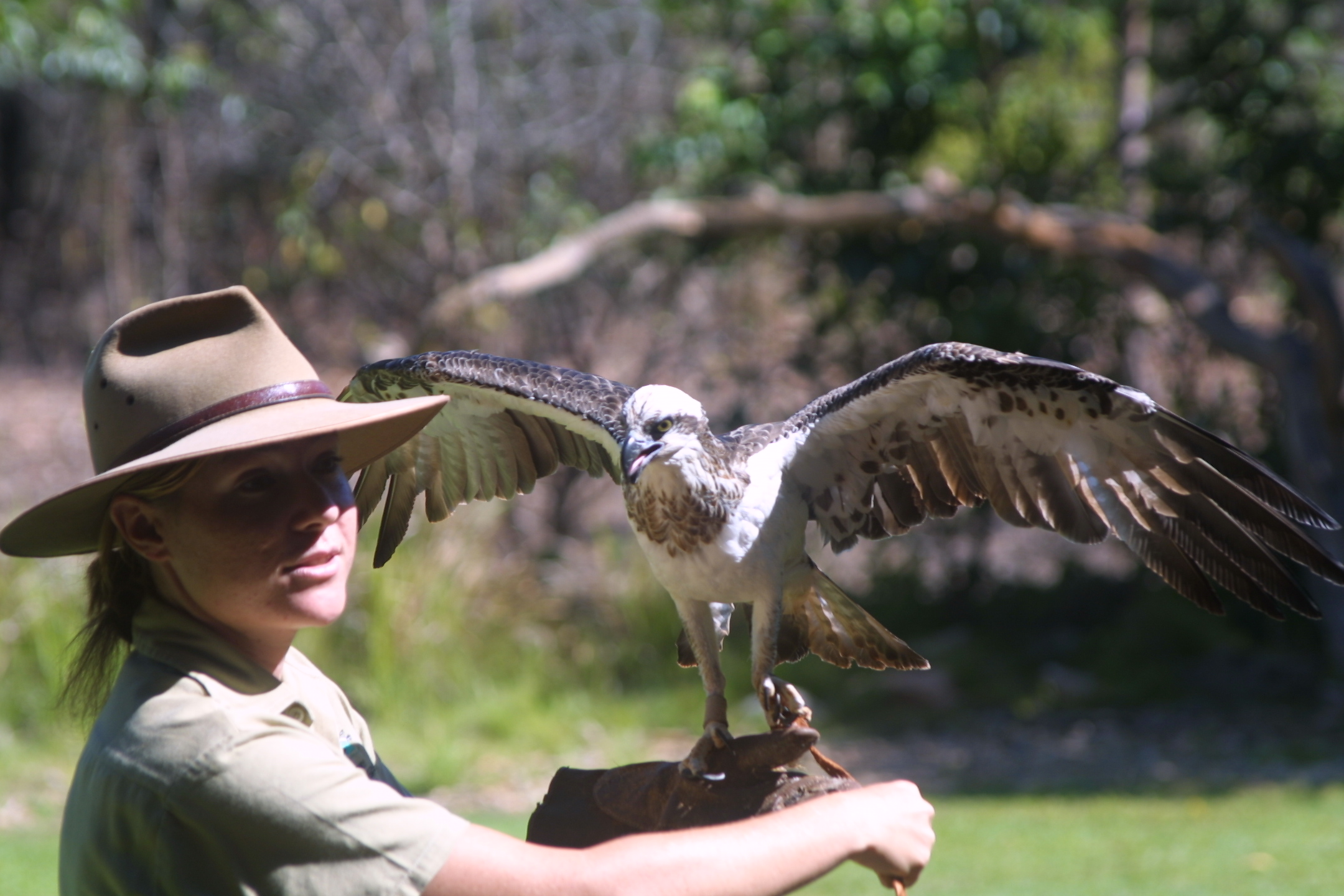 An Osprey with a zoo keeper at Territory Wildlife Park, Berry Springs, Northern Territory, Australia.